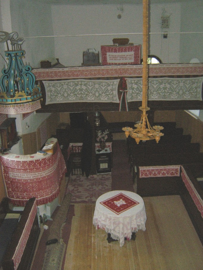 View from Horlacea, Cluj county, Romania